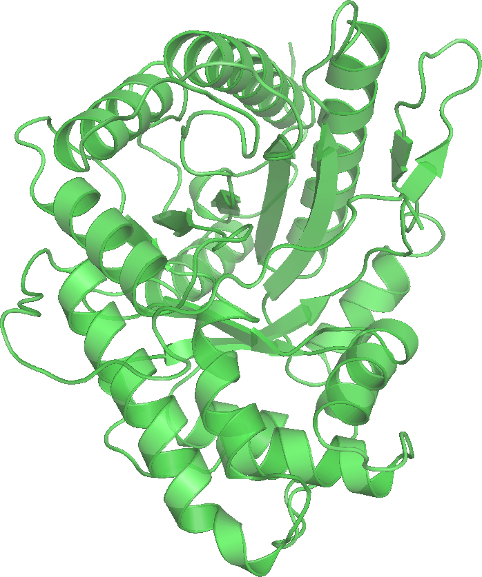 Fructose-1,6-bisphosphate_aldolase_4ALD